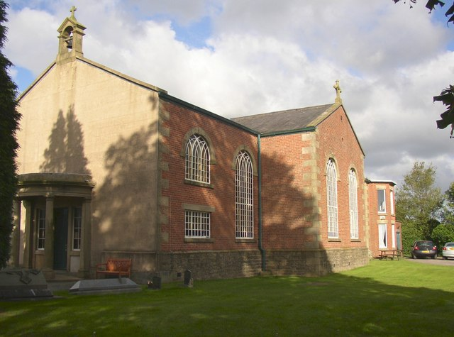 St Mary's RC Church, Fernyhalgh, Broughton Built and completed in 1794. Consecrated 12 August 1795 by Bishop Gibson, Vicar Apostolic. There had been a chantry chapel in 1348, and Ladyewell House was used as a Presbytery and Chapel from 1686 until the present church was consecrated.